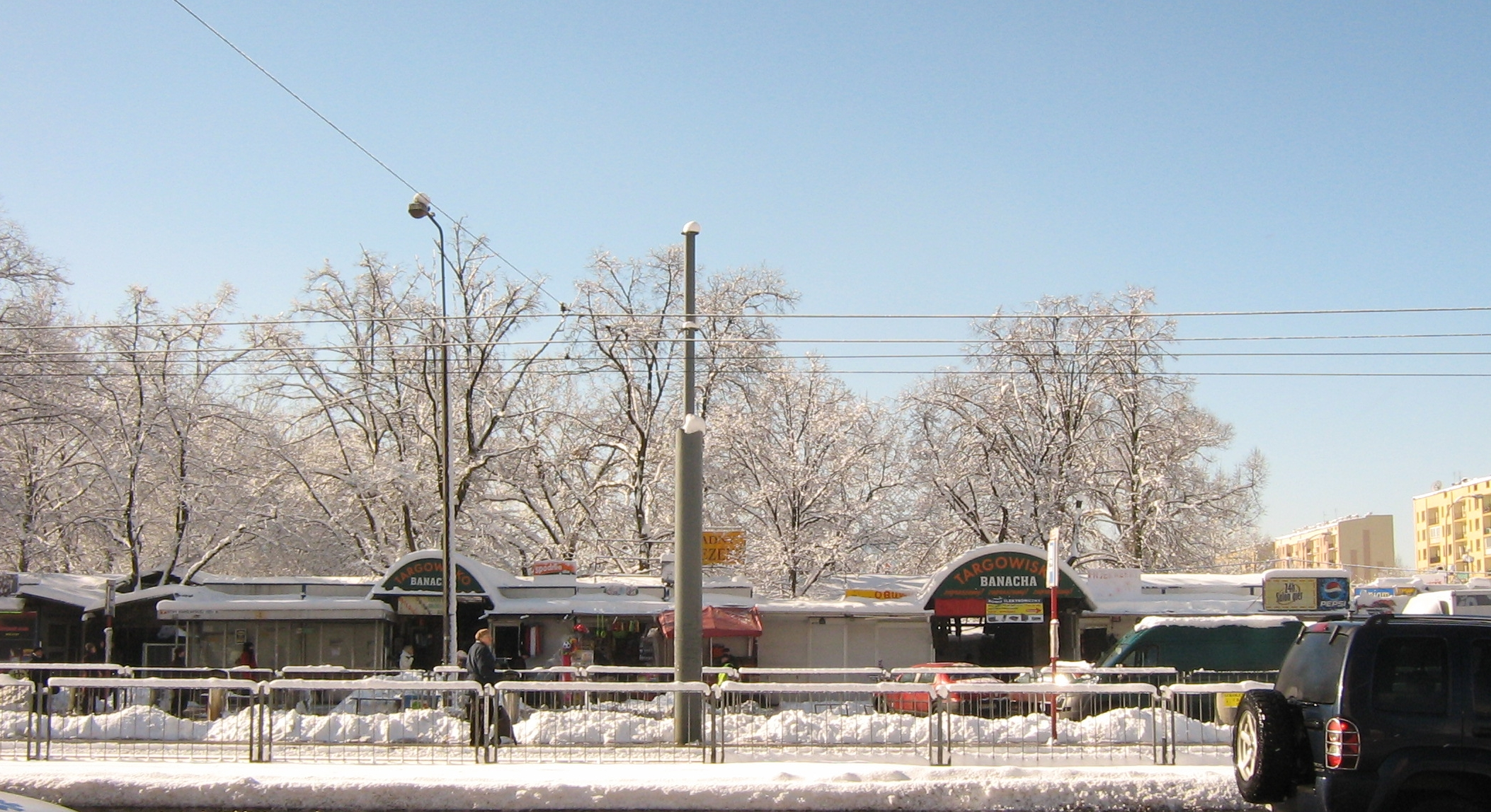 Banacha Market Place. Warsaw